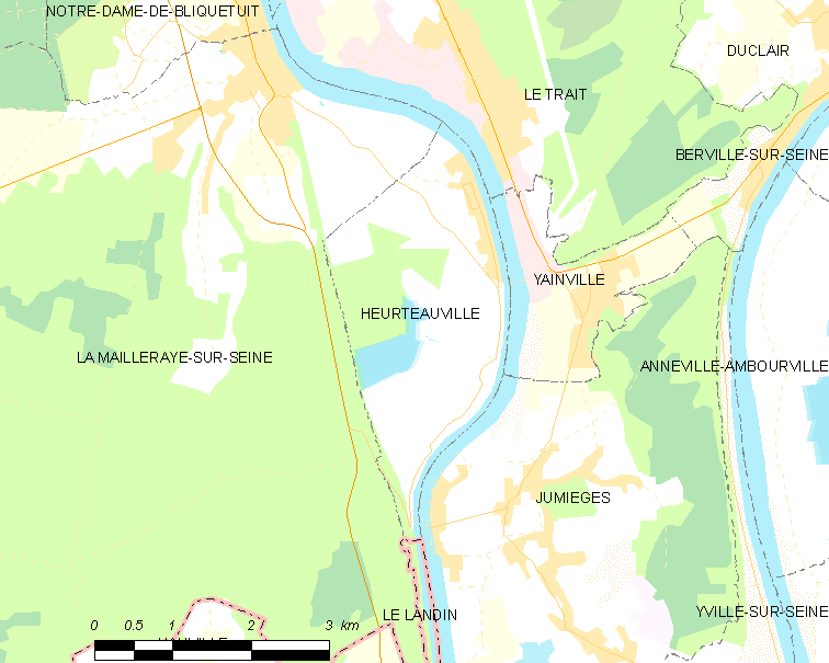 Map of French municipality Heurteauville